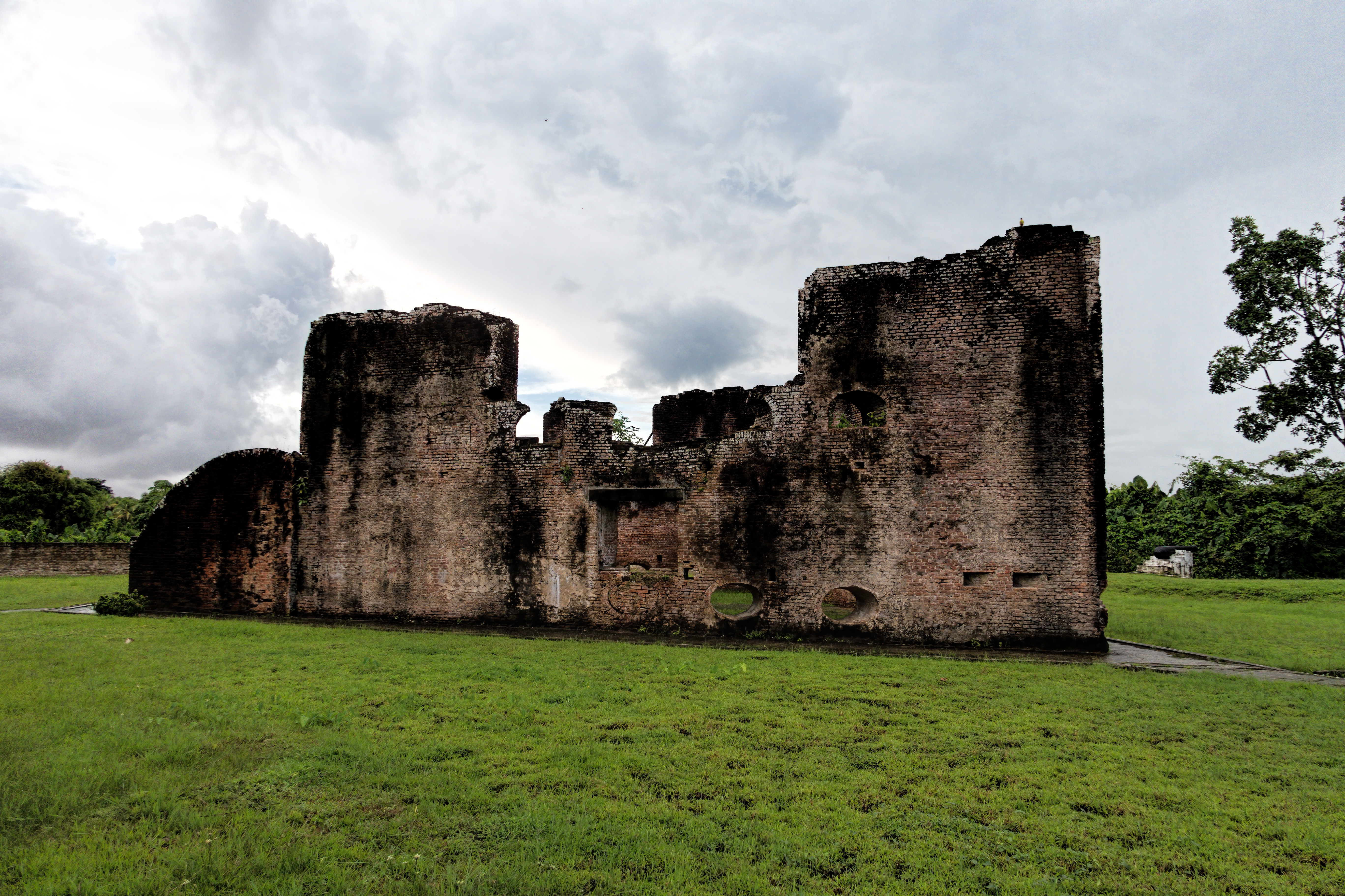 Ruins of Fort Zeelandia. Fort Island in the Essequibo River delta was originally called Flag Island due to a large flag that was a guide to ships. In 1740 the Dutch commenced building a small brick fort with African slave labor to replace a rotting wooden redoubt from 1726. The fort was named Fort Zeelandia as many of the area’s original settlers had come from the County of Zeeland in the Netherlands. The lower story was a warehouse for provisions and powder magazines while the upper story was living quarters for soldiers. The roof held mortars and swivel guns. The southwestern bastion was an armory. Flag Island was renamed Fort Island in 1775. Although initially a very substantial defense, by 1781 the fort had deteriorated and was captured by the British, taken over by the French the next year, and then back in Dutch hands two years later. The fort had entered into a long period of decline by 1796.